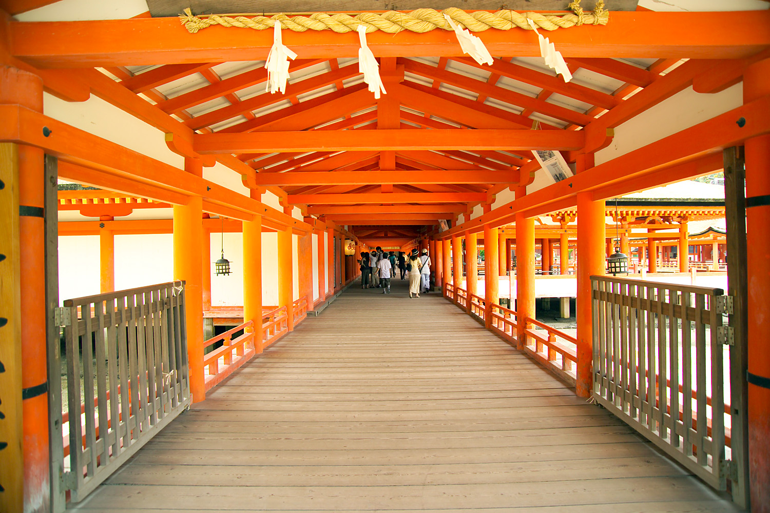 Interior of building at Itsukushima Shrine, Miyajima, Hiroshima Prefecture, Japan.